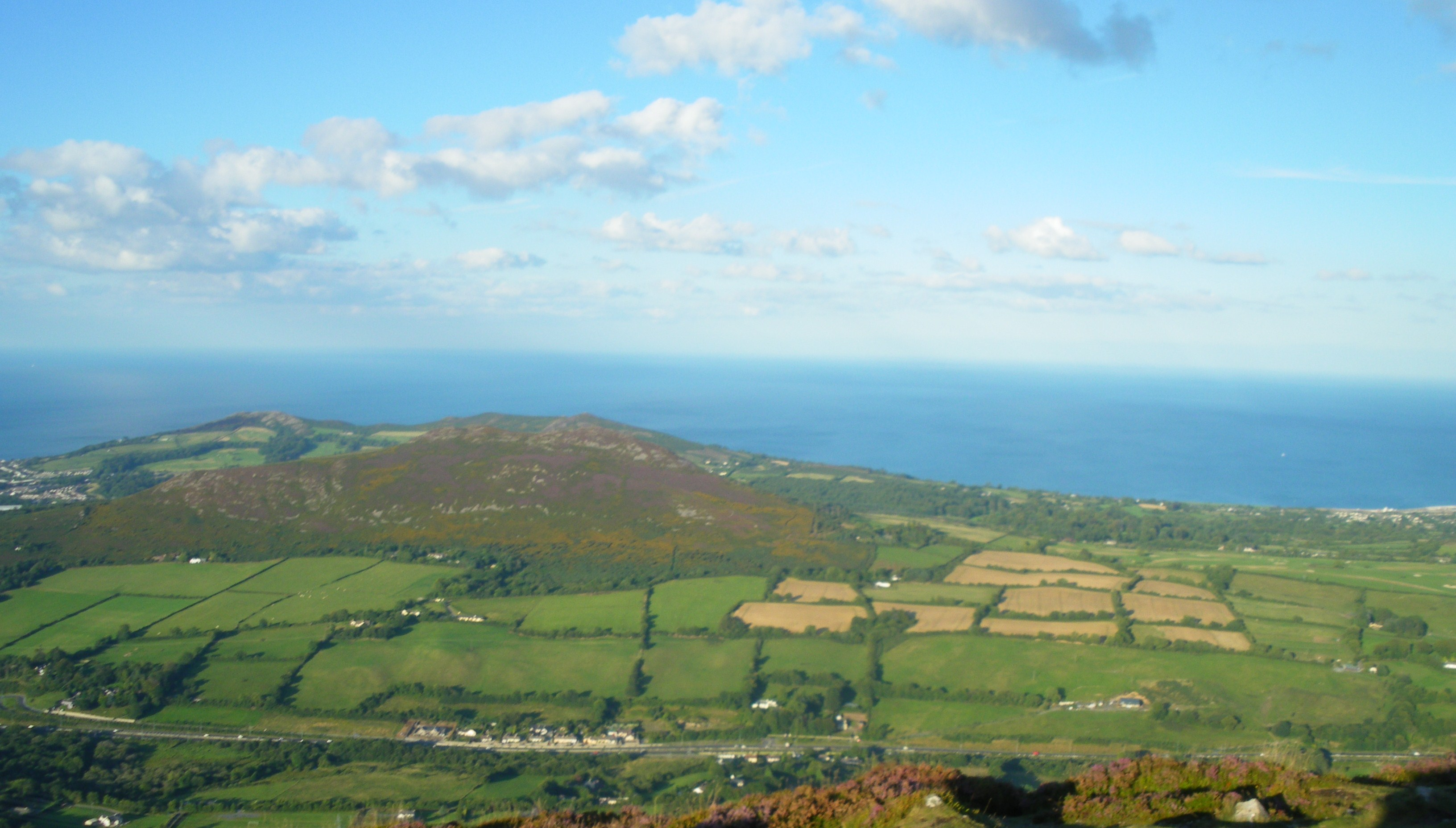 View of the Little Sugar Loaf and Irish Sea from the summit of the Great Sugar Loaf in Ireland.